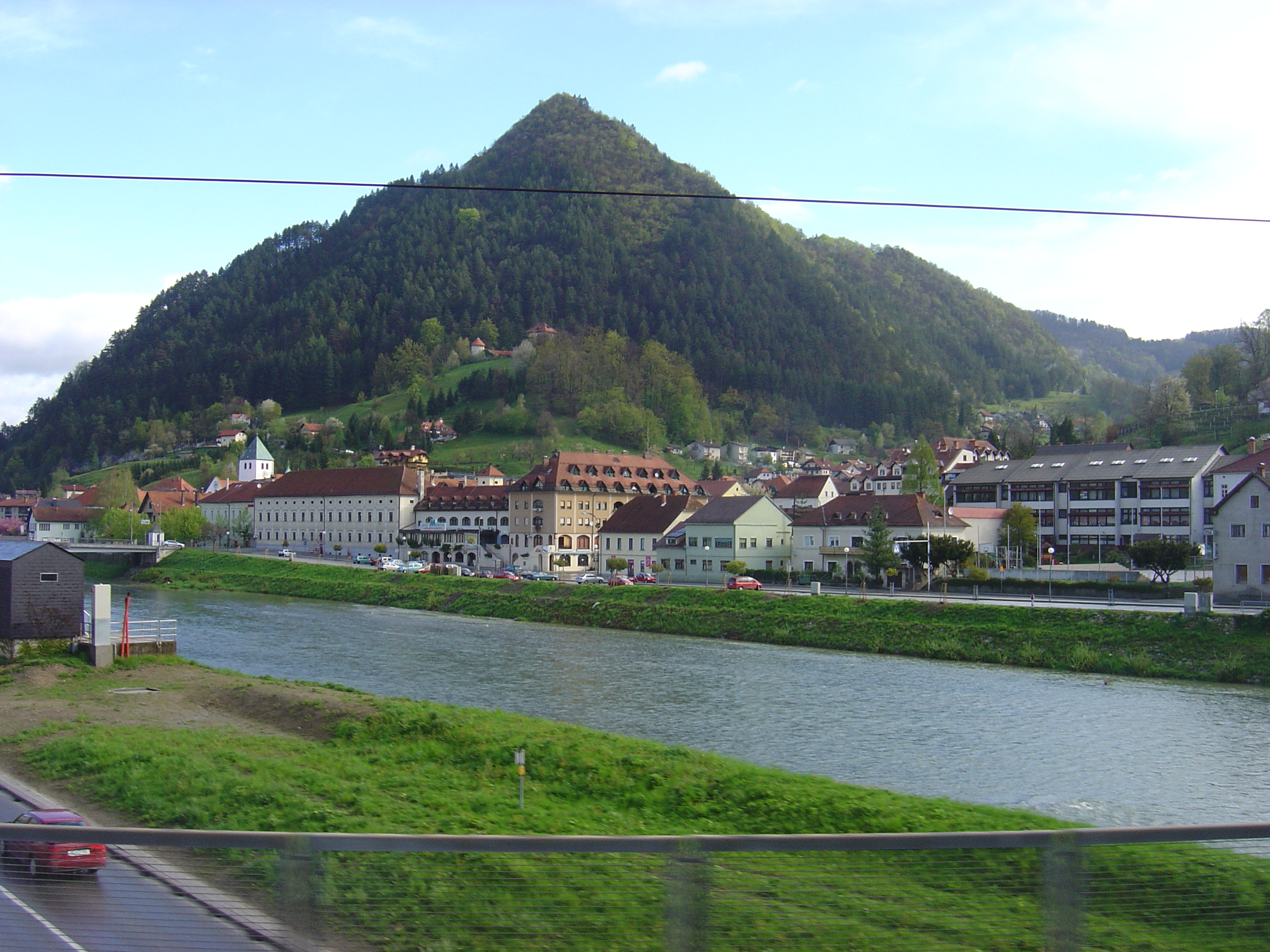 Laško, Slovenia